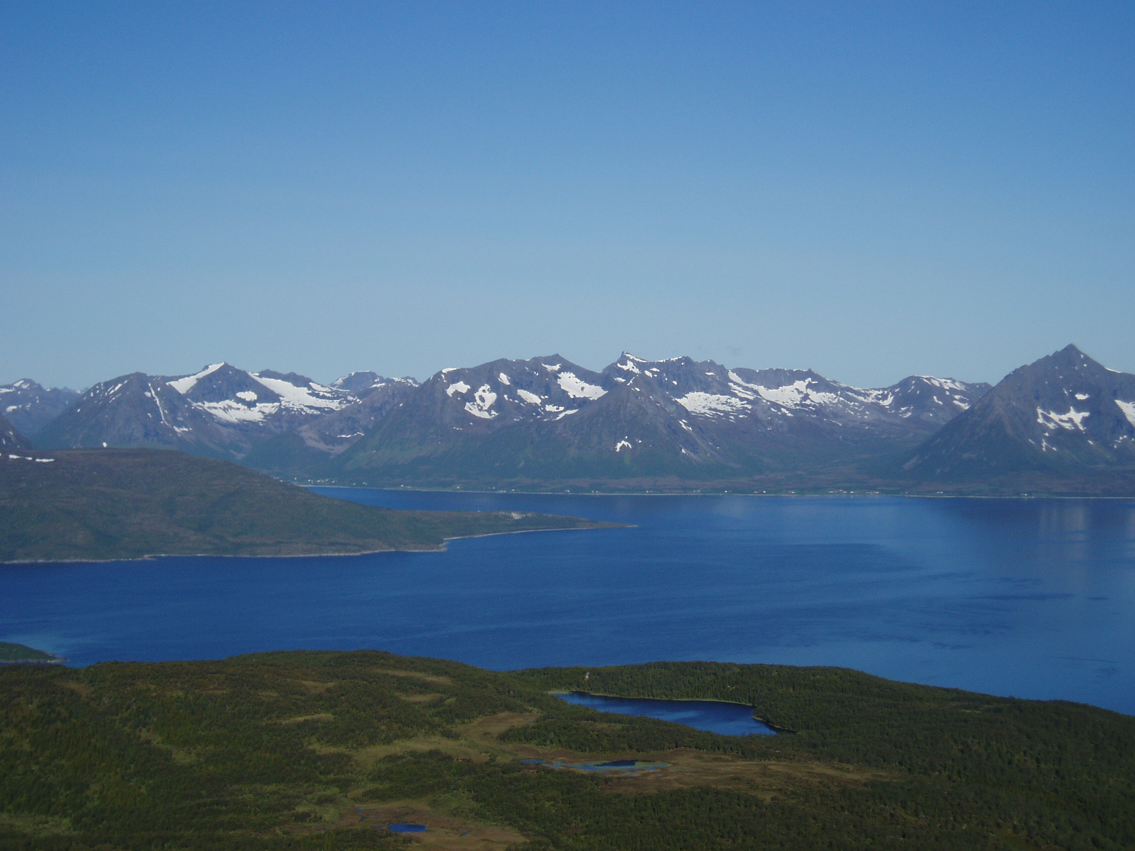 Background: Godfjorden, Sortland, Nordland, foreground: Gullesfjorden, Kvæfjord, Troms, Norway.